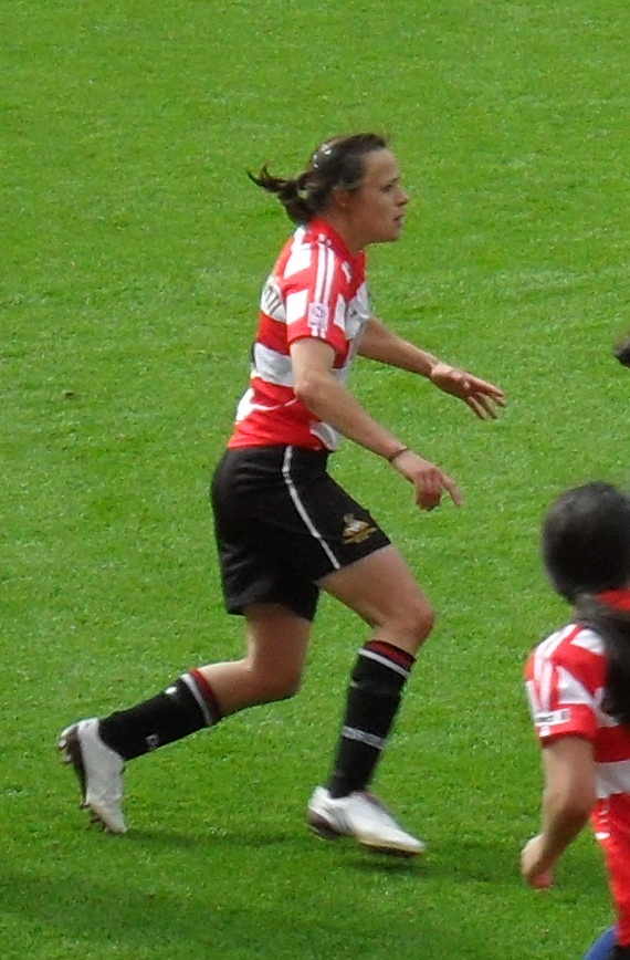 Doncaster Rovers Belles LFC footballer Aine O'Gorman at a WSL game against Birmingham City LFC at Keepmoat Stadium